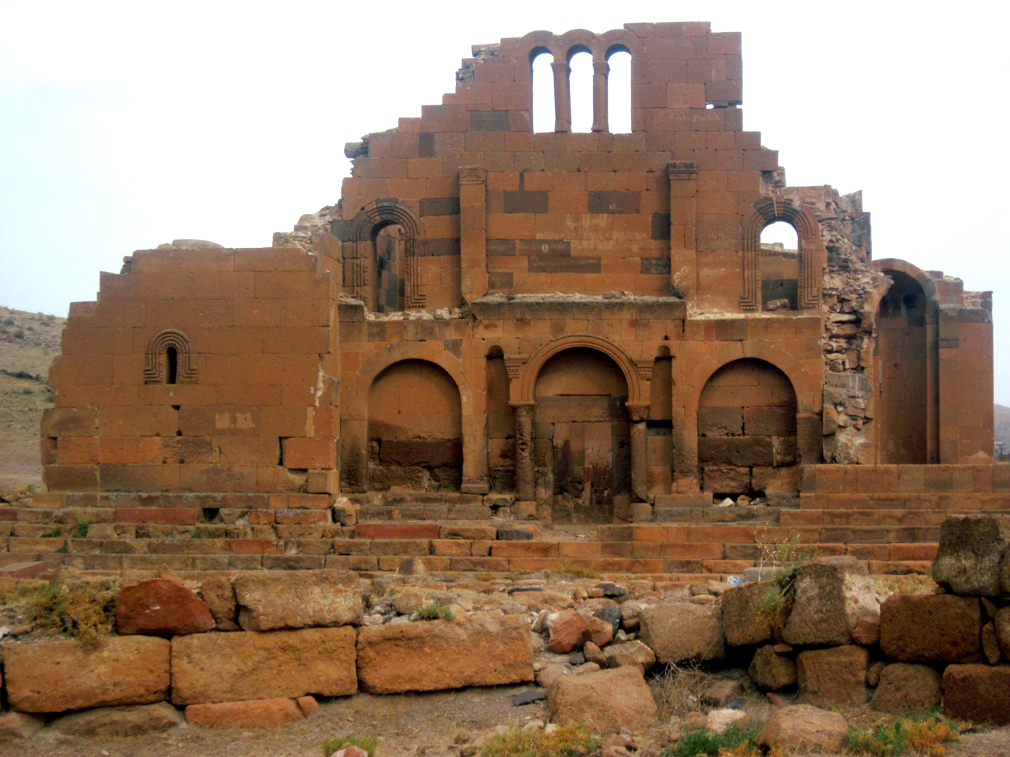 The ruins of Yererouk Basilica 13/2.7